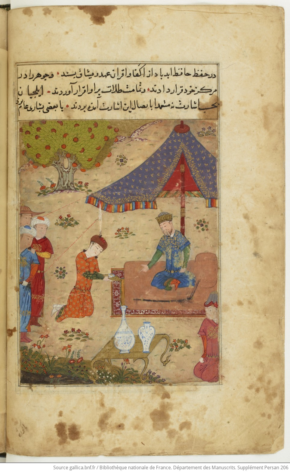 Tekuder receives an embassy. Persian historical text of Tarikh-i Jahangushay-i Juvaini